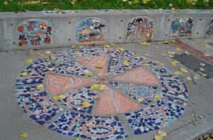 Detail of walkway at Licton Springs Playground in Seattle, Washington